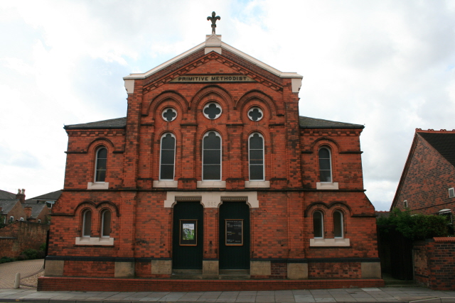 Primitive Methodist Church On Wollaton Road.